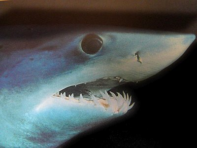 A close up of a shortfin mako shark head.